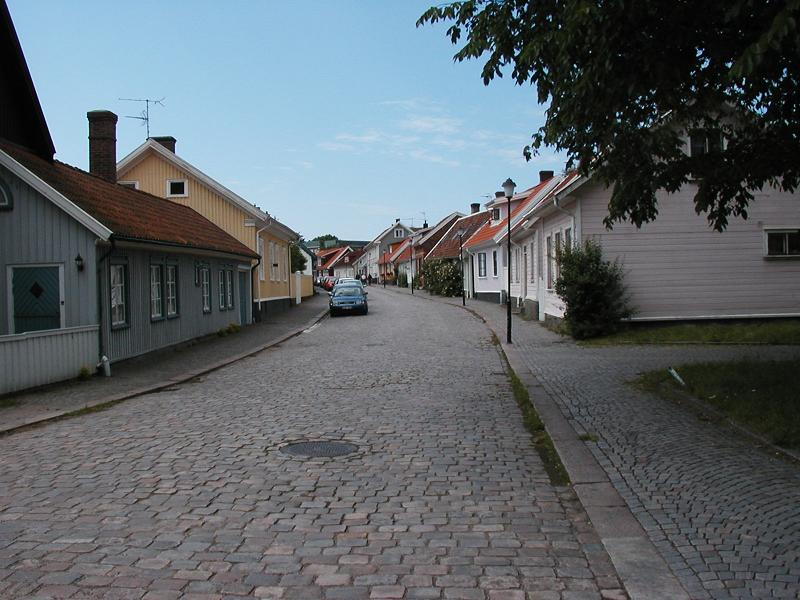 Old town, Falkenberg, Sweden.